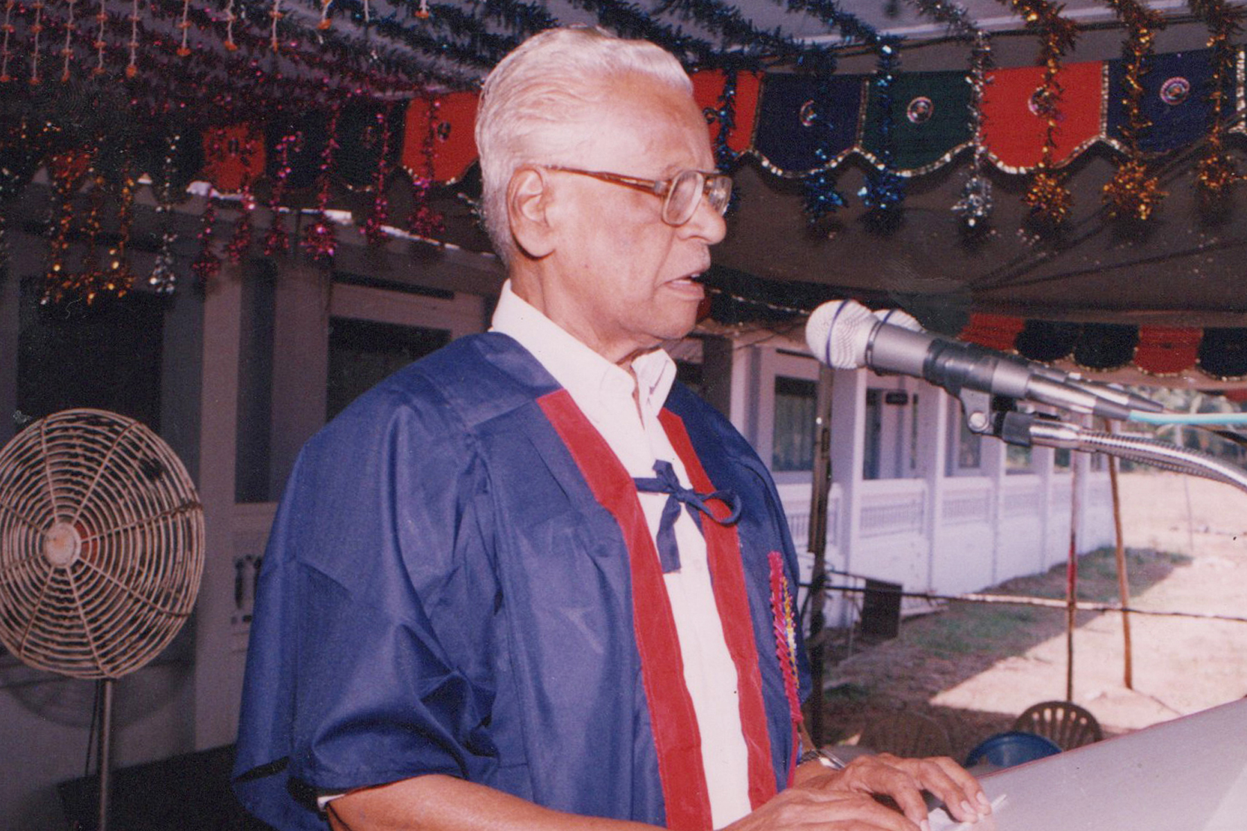 S. Murugaiyan (07 August 1920 - 06 January 2003) was an Indian politician, former Member of parliament, Lok Sabha and former Member of the Legislative Assembly of Tamil Nadu. He was elected to the Tamil Nadu legislative assembly from Thurinjapuram constituency in 1962 and from Kalasapakkam constituency as a Dravida Munnetra Kazhagam candidate in 1967, and 1971 elections.[1][2] He was also elected as Member of Parliament from Tirupattur constituency in 1980 lok sabha election.[3] He then served as Municipal Chairman of Tiruvannamalai and leader of Tiruvannamalai Sengunthar Mahajana sangam.